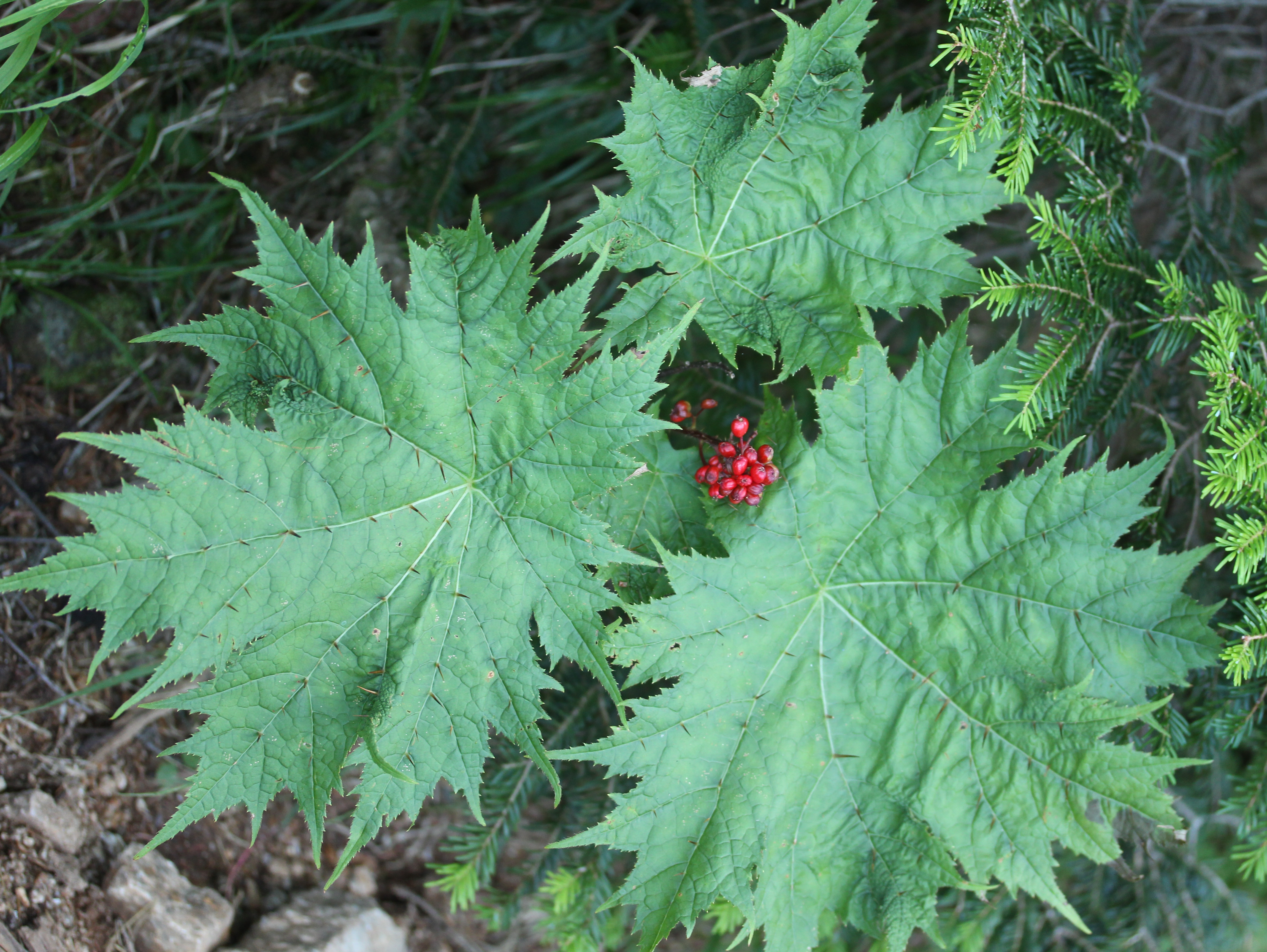 Oplopanax japonicus, in Mount Kosumo of Kiso Mountains, Nagano pref., Japan.